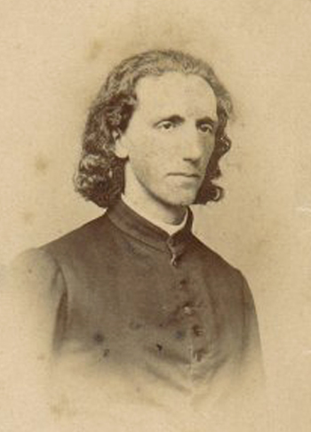 Portrait of Franz Brentano